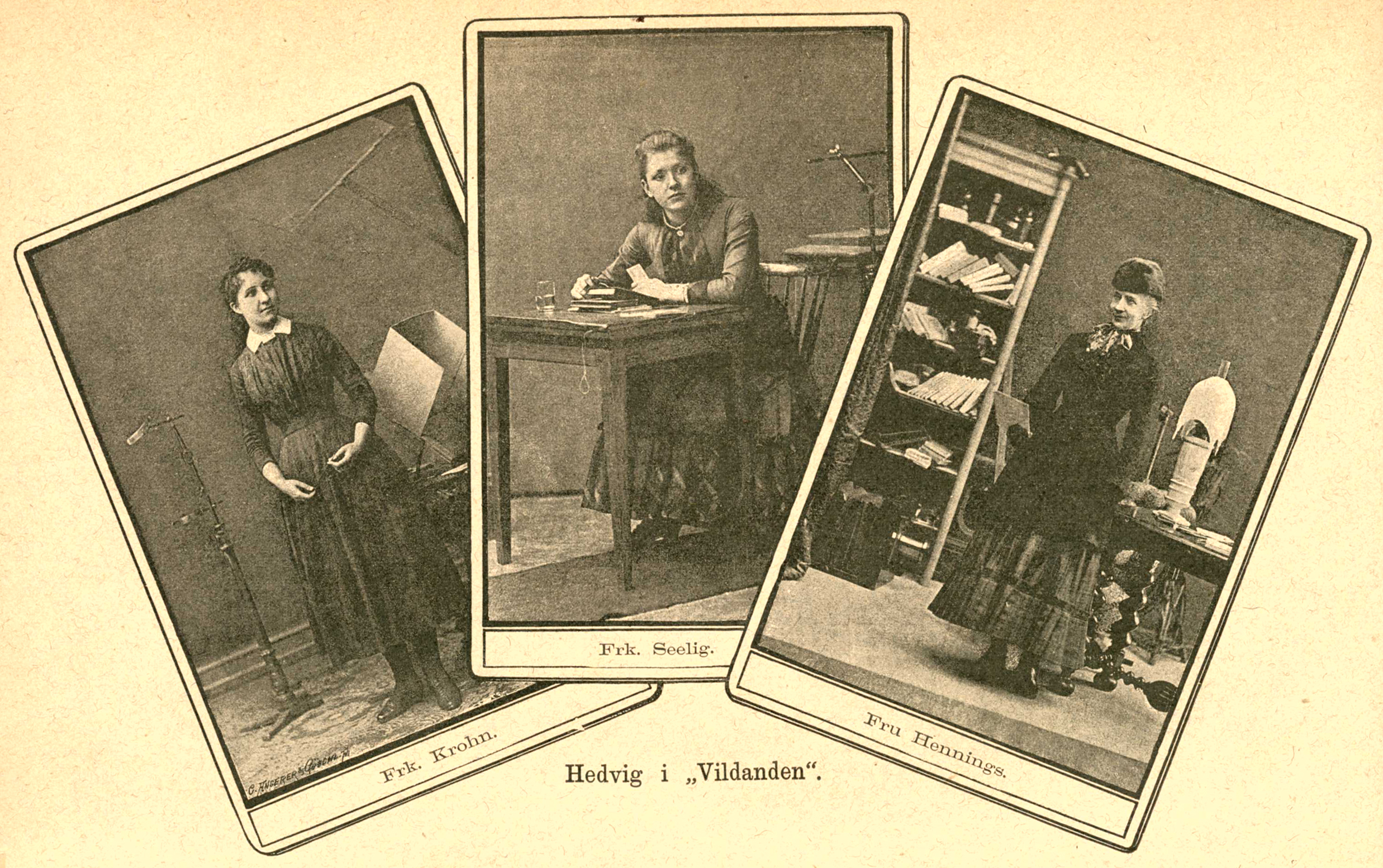 Three Nordic Hedvigs: from left Lully Krohn, Lotten Seelig and Betty Hennings (scanned from Georg Nordensvan, Svensk teater och svenska skådespelare. 2det Hefte, 1889, inside of cover)